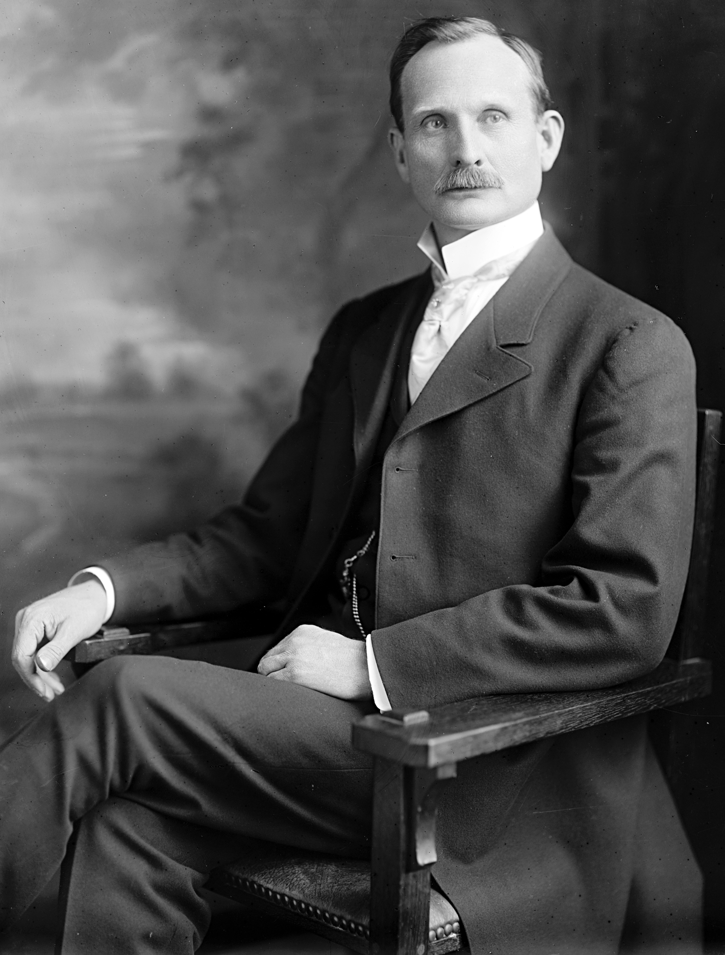 Nathan W. Hale, US Representative from Tennessee